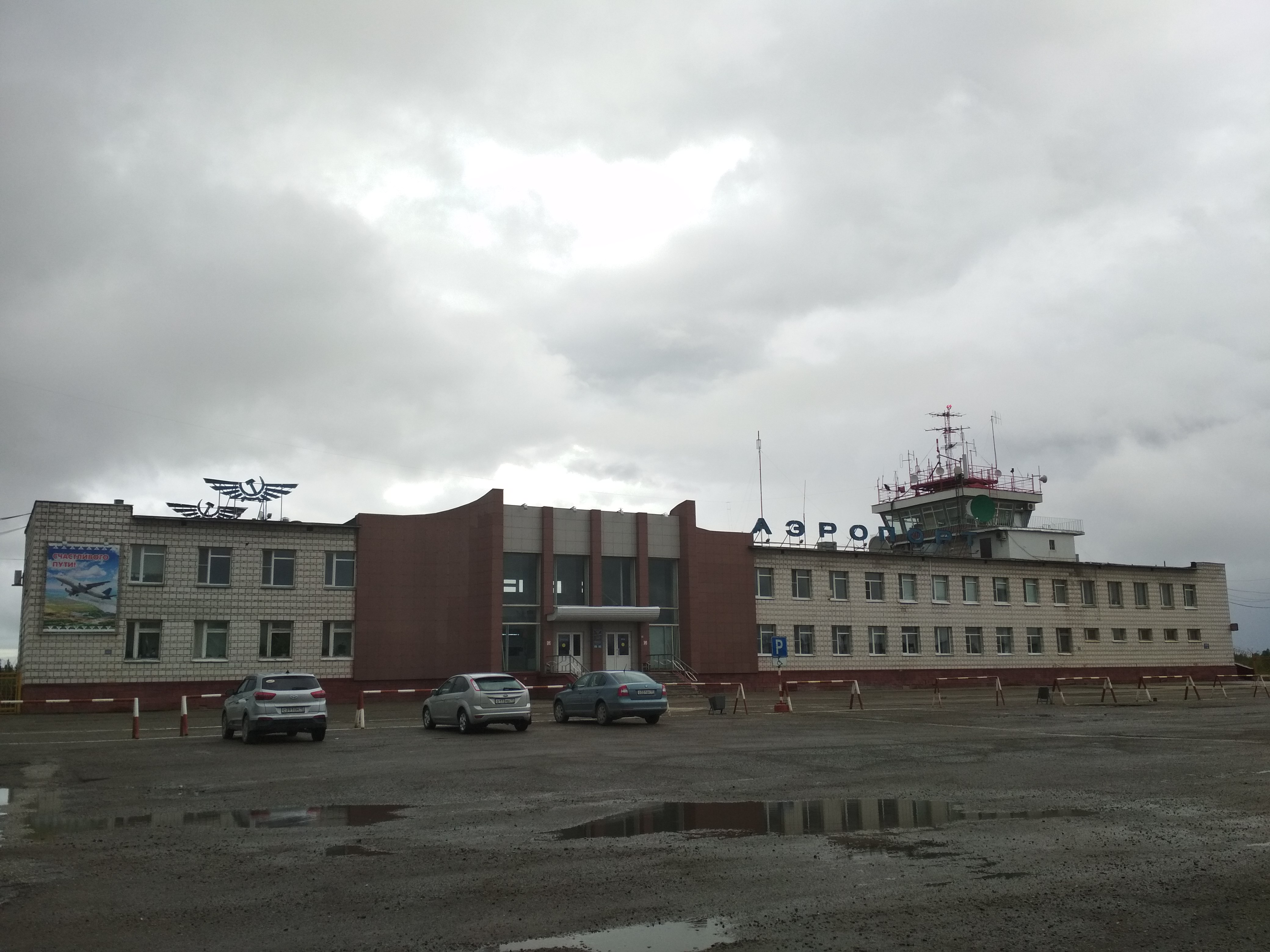 Airport building Usinsk, Komi Republic